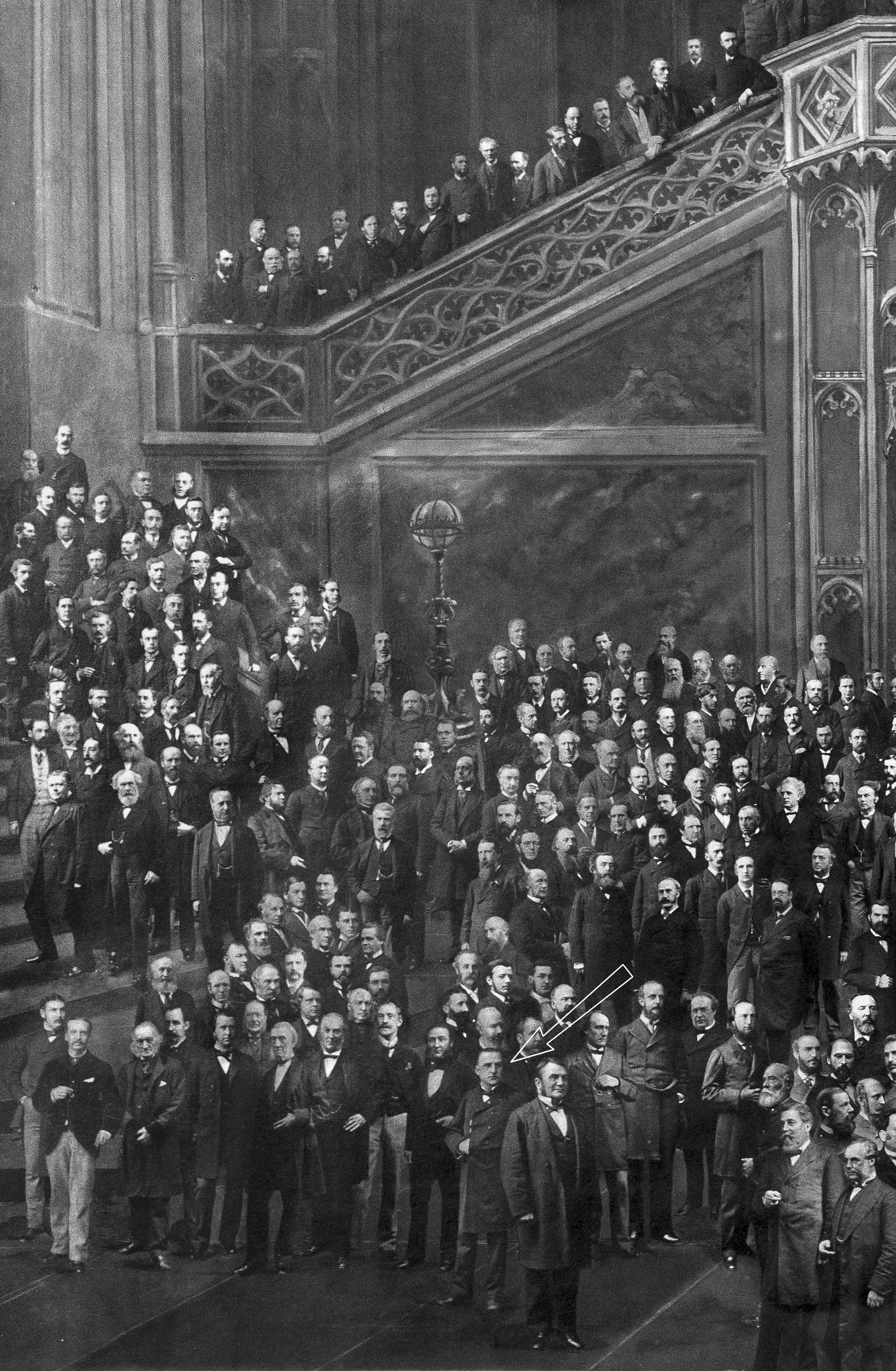 Composite group portrait of members of the International Medical Congress, 1881; by n.d; detail showing Jean-Martin Charcot highlighted with an arrow. He stands in 'Napoleonic pose' in the front row of the huge gathering. Wellcome Images Keywords: Jean-Martin Charcot; Herbert Rose Barraud